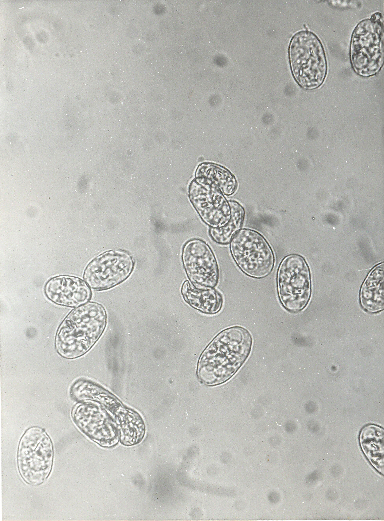 Conidia of Podosphaera leucotricha, apple ashtrays. They form on short conidiophores on the mycelium, they have spherical shape, transparent, with thin walls. They easy distributing with the wind and carry infections.